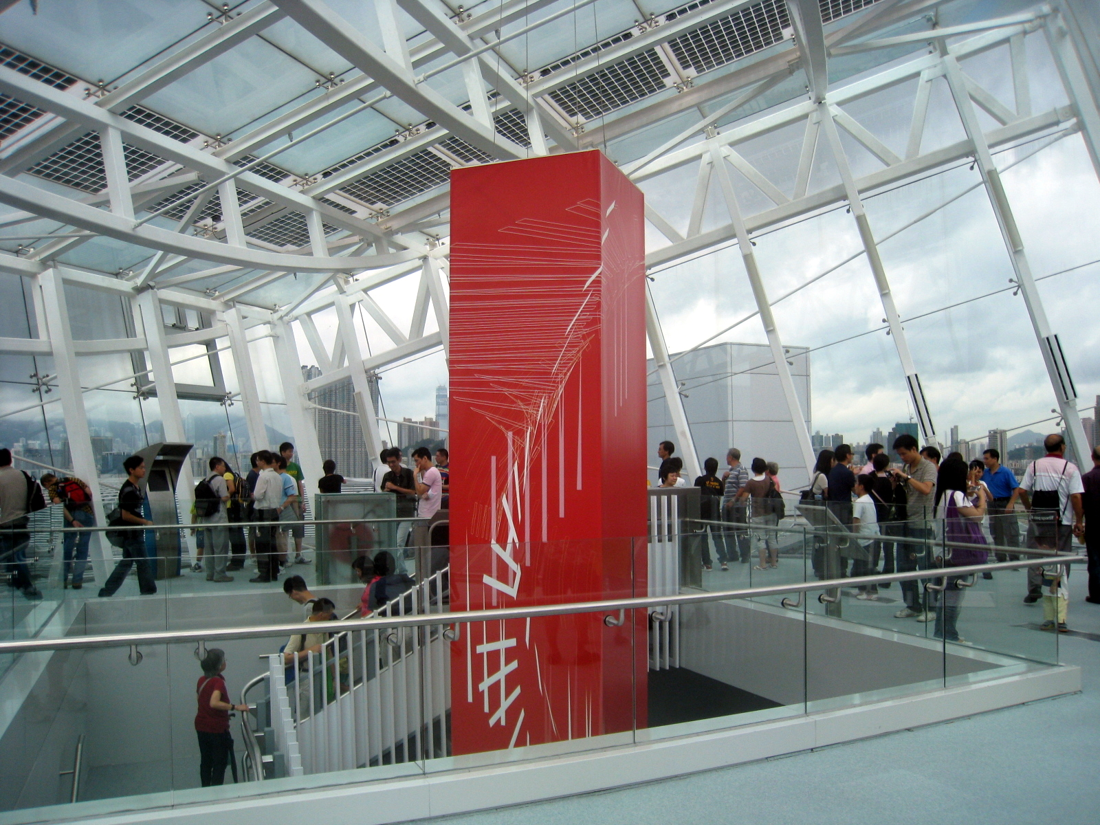 Electrical and Mechanical Services Department Headquarters Skyhouse 機電工程署總部大樓